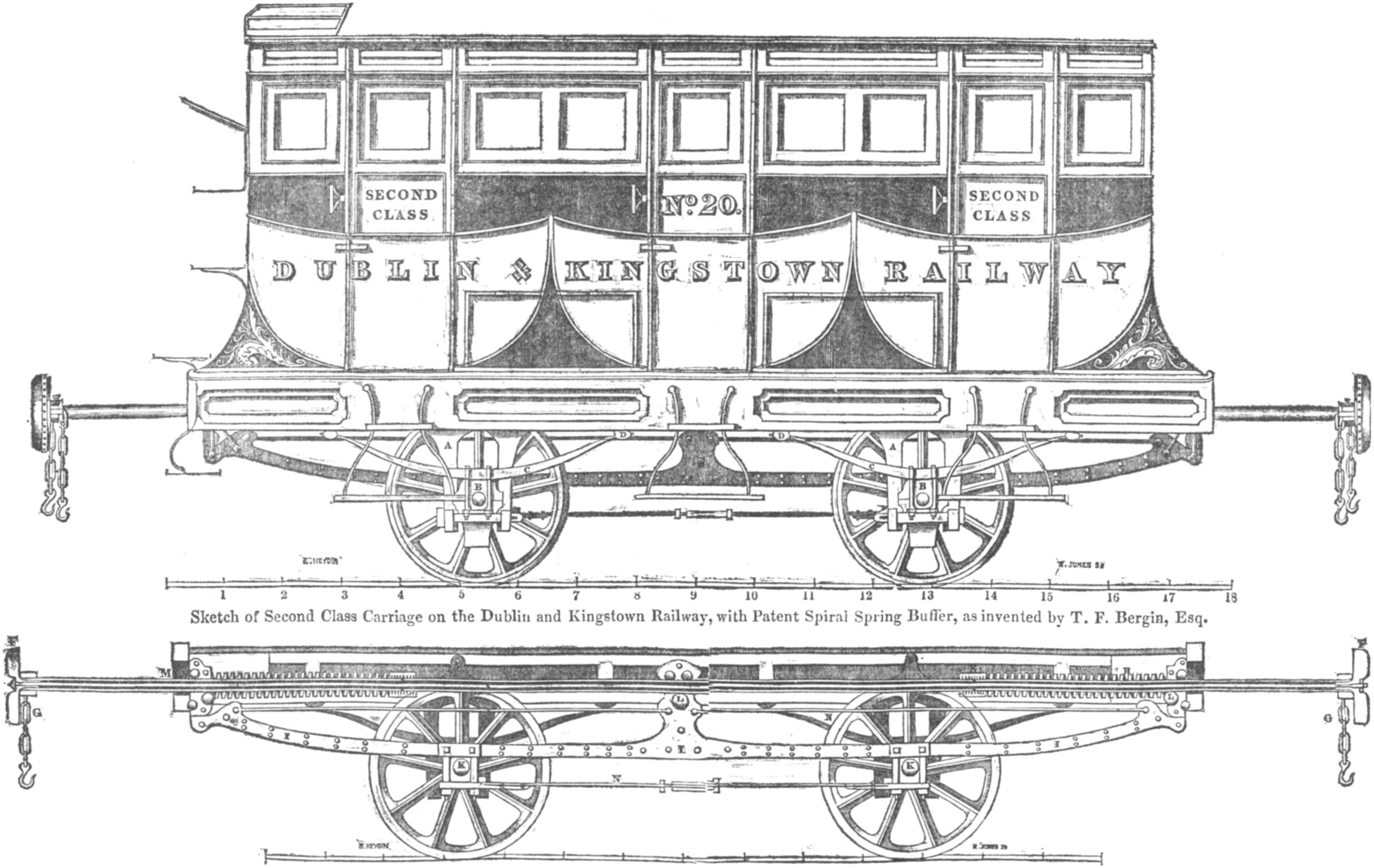 Drawing of a Dublin & Kingstown Railway Second Class Carriage. Attributed to E. Heyden (on the following page).